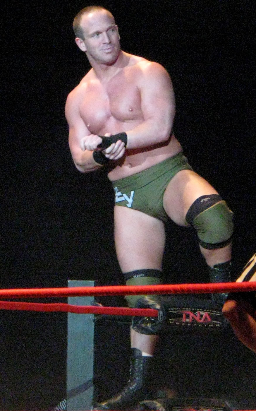 Eric Young